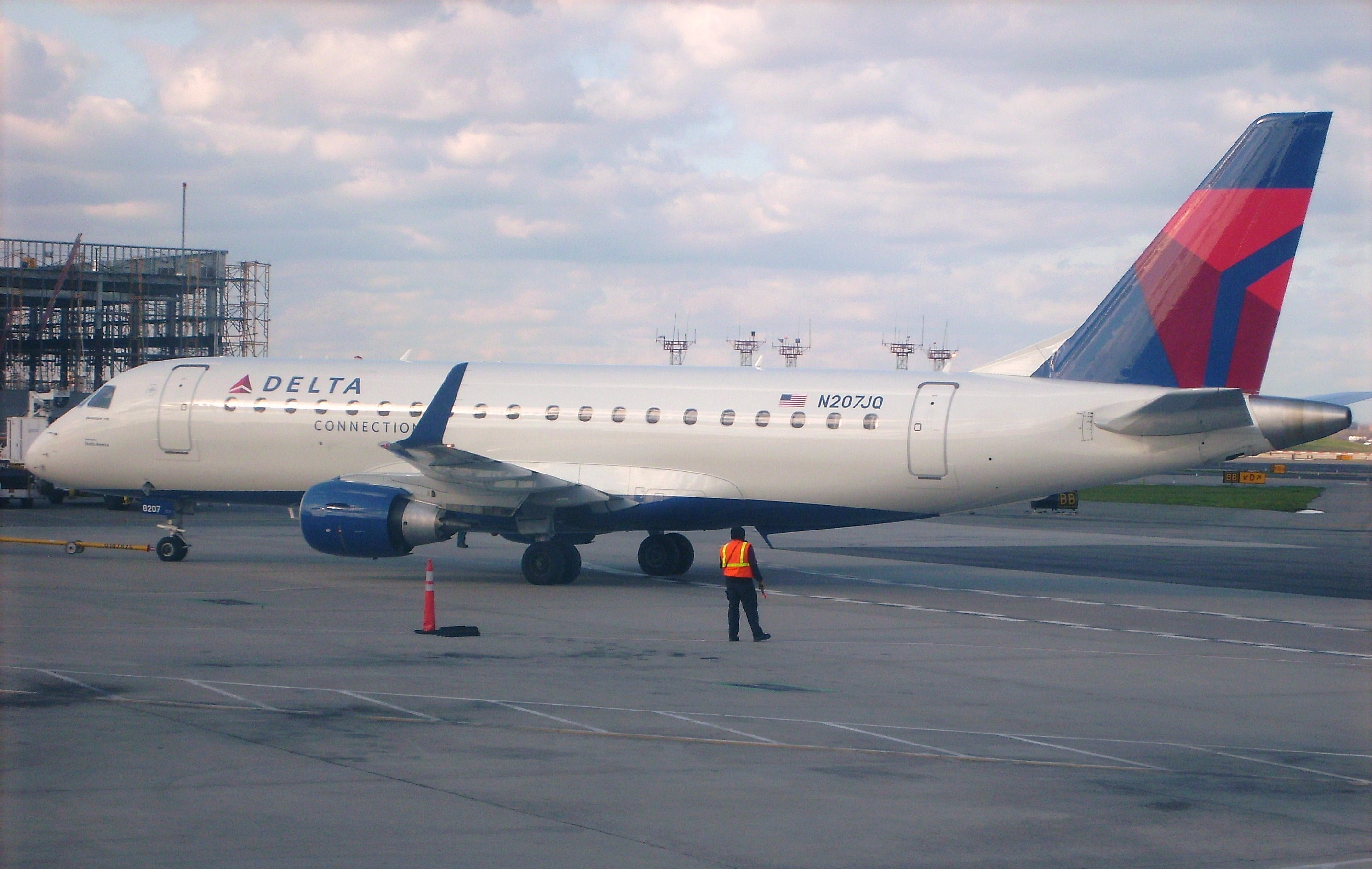 Shuttle America Embraer 175 N207JQ in Delta Connection livery